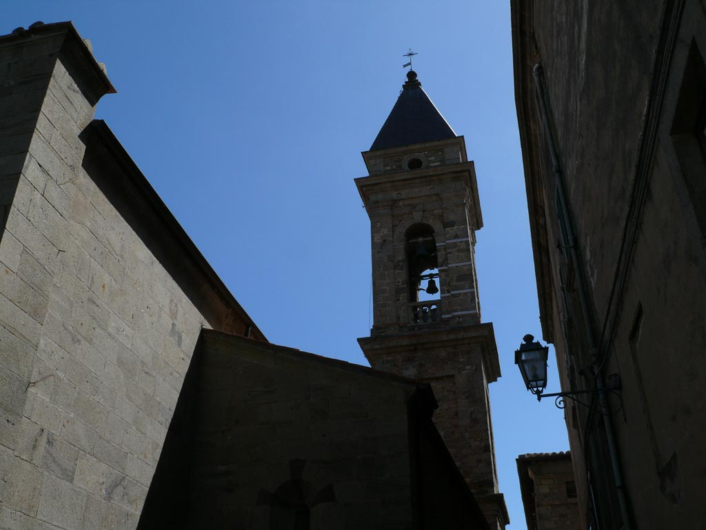 Seggiano, alley with church tower